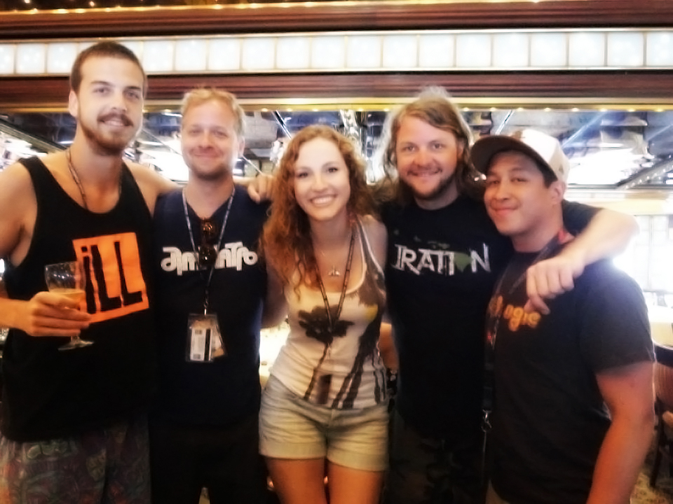 This picture features (from left to right) Will Kubley, Nick Kubley, Kristi Perikly (fan and photo holder), Ted Bowne, and Mike DeGuzman of the band Passafire on the 311 Cruise 2012. It was taken at the Beer Tasting with Passafire event on the ship.